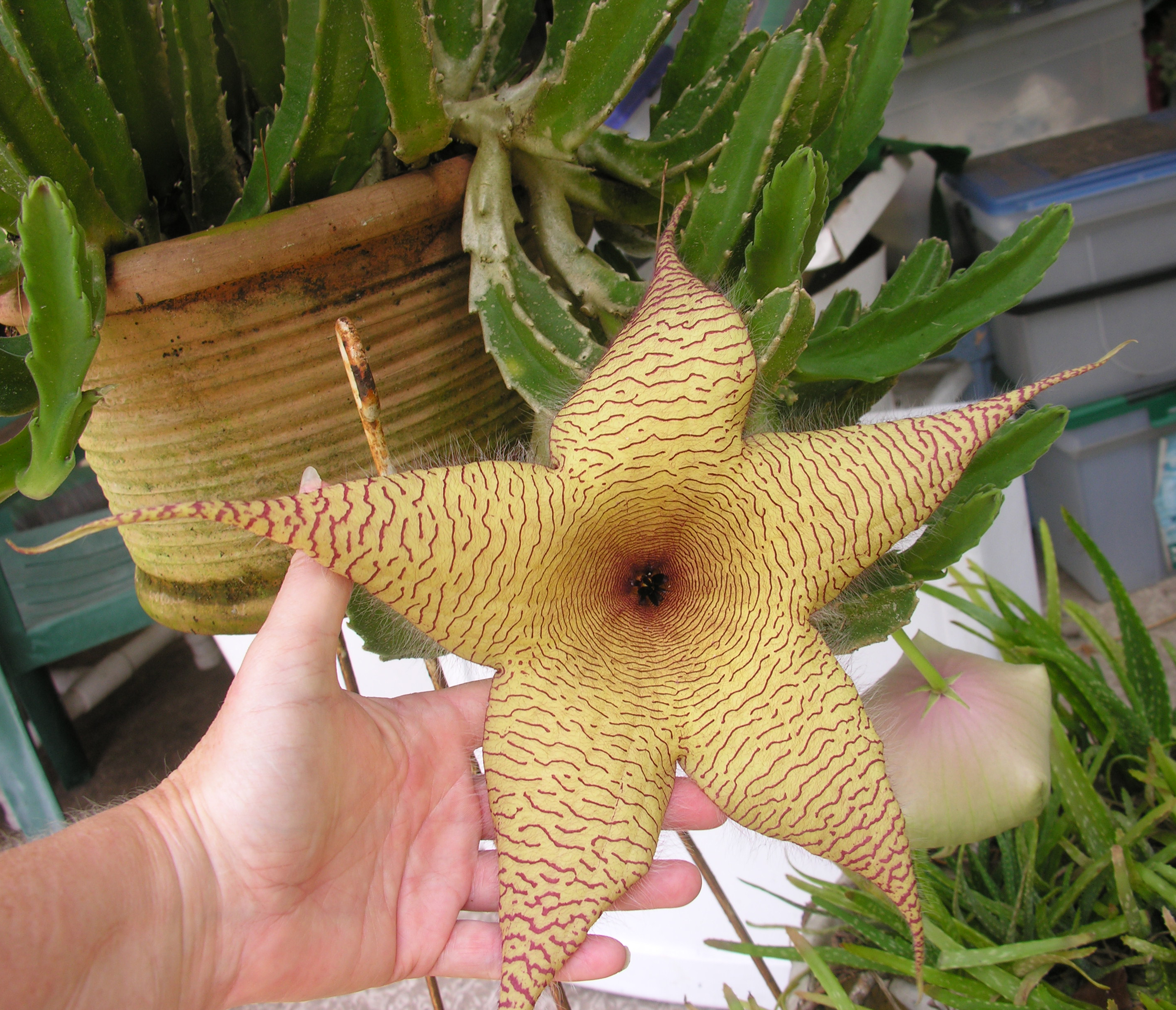 Stapelia gigantea flower and bud